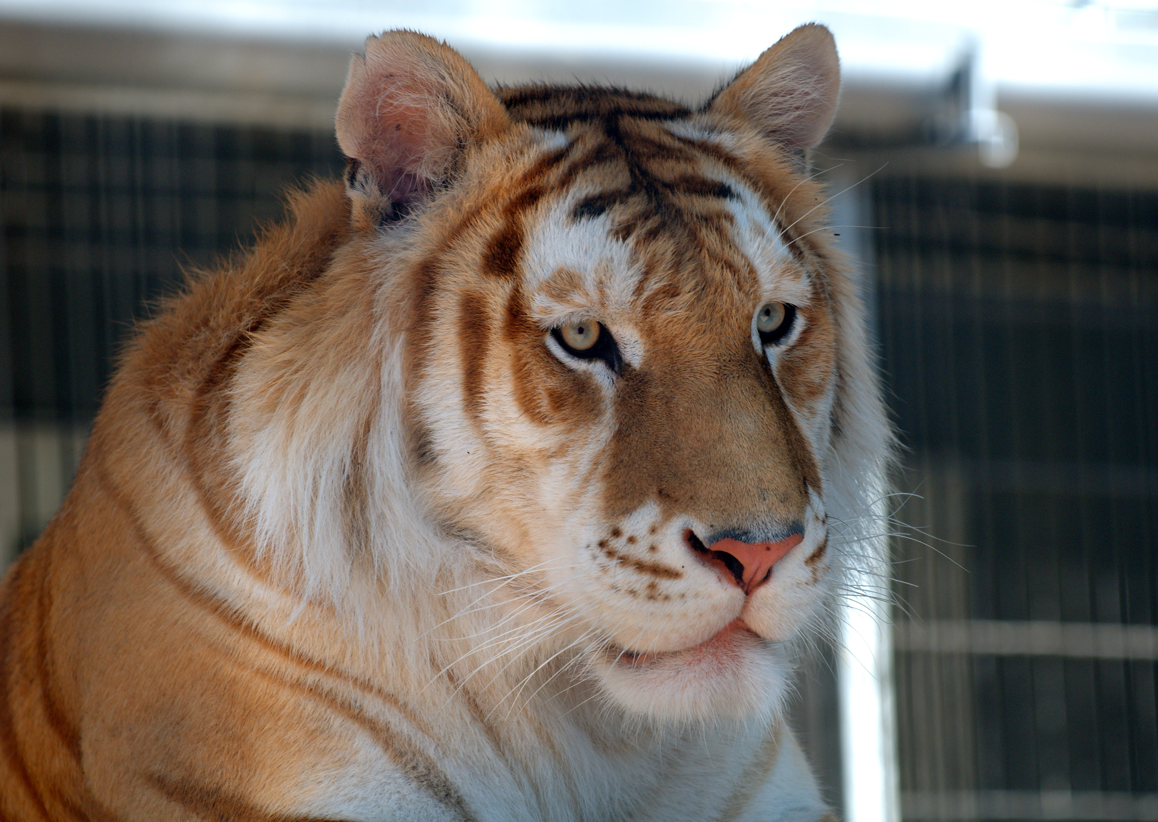 Headshot portrait of an orange bengal tiger at Cougar Mountain Zoo.